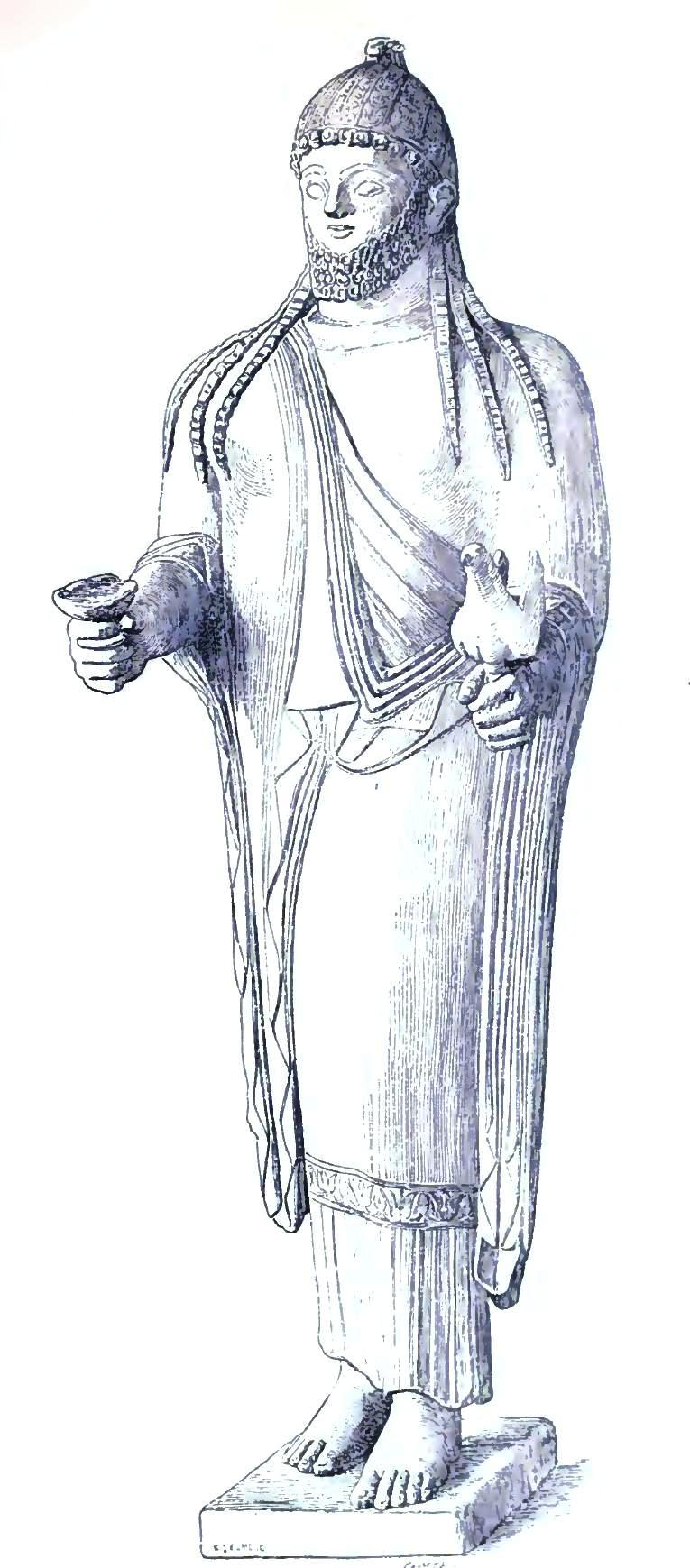 Priest with dove - Metropolitan Museum of Art